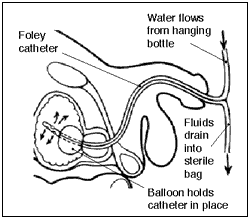 Side view diagram of male urinary tract with Foley catheter in place to drain urine. A balloon near the tip holds the catheter in place.